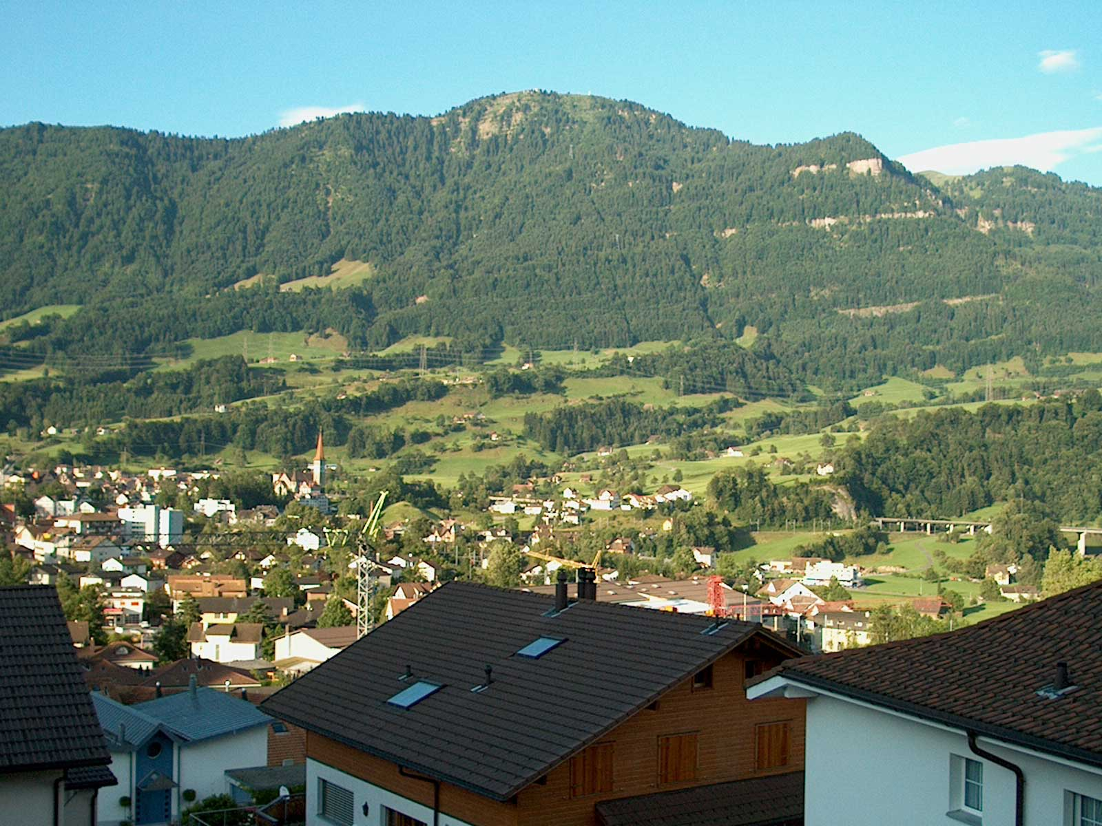 Rigi Scheidegg seen from Goldau created by MeckiM@c on Oct 6, 2003